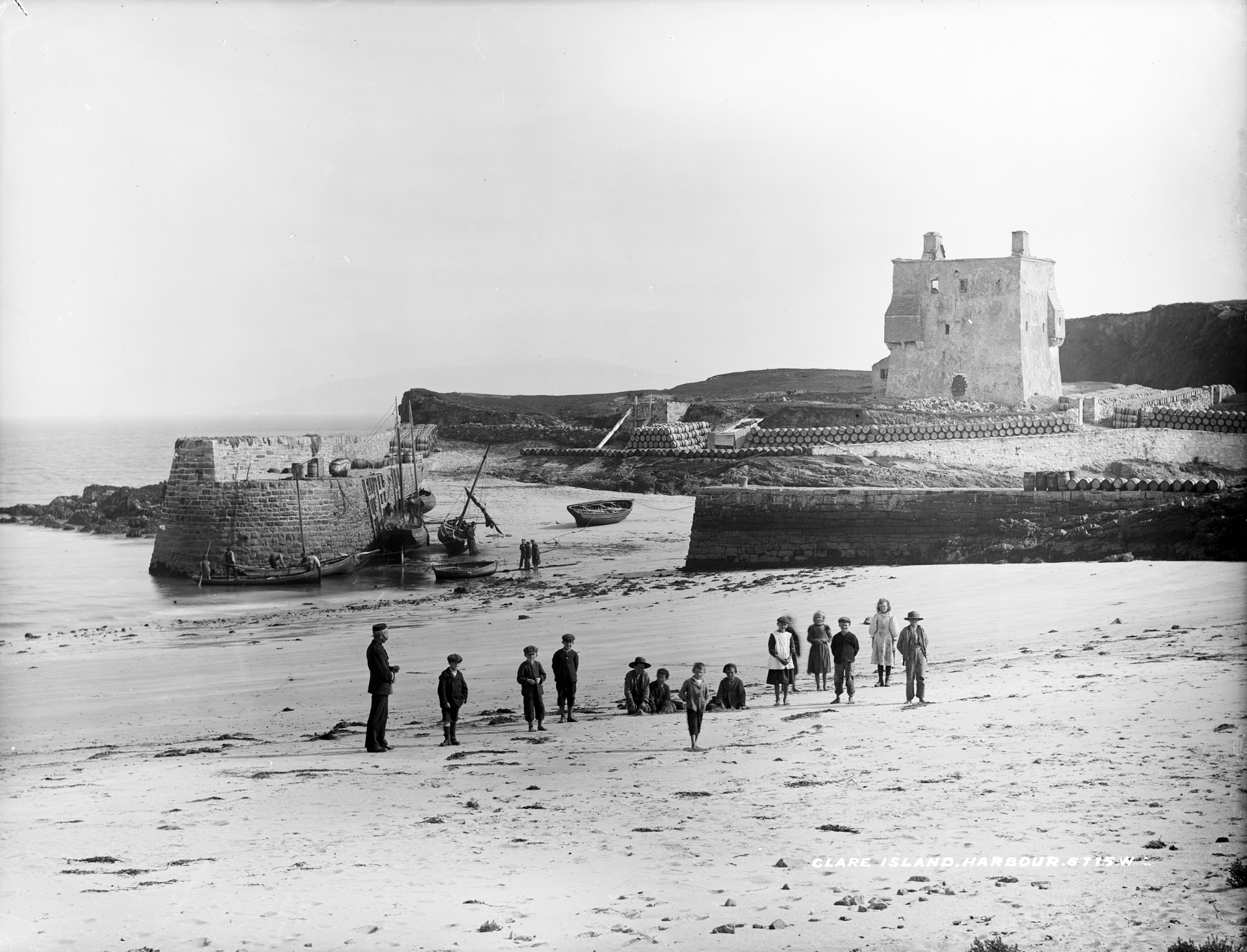 Uploading this one (a) because it's gorgeous; and (b) because it's my "Out of Office" notification. Off to Clare Island for the bank holiday weekend, and the B&B looks out on this scene, I think! Will be back in Library Towers next Wednesday, and I have a great photo lined up for ye then. Date: 1900?? (hoping policeman's/soldier's uniform might help) NLI Ref.: L_ROY_06775 In other news, DannyM8 recently suggested to me that ye all might be interested in the stats for our photos here on Flickr, so here goes: Views for July 2012 = 150,472 Comments in July 2012 = 1,131 Overall views since 1 June 2011 = 1,801,302 Overall comments since June 2011 = 11,060 Pretty impressive, I think, and all down to you! I'll keep you posted on the monthly figures from now on...